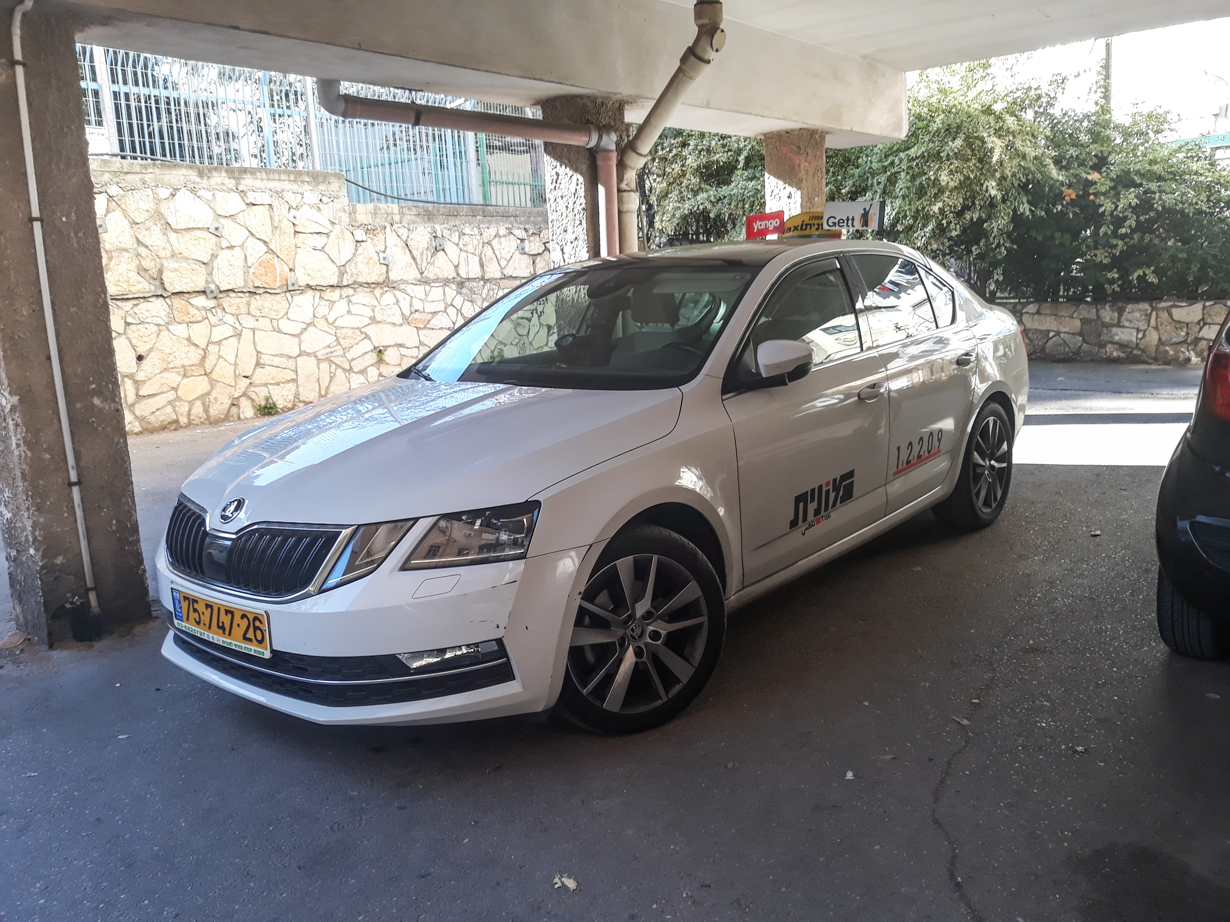 Taxi car in Israel working with Gett and Yango